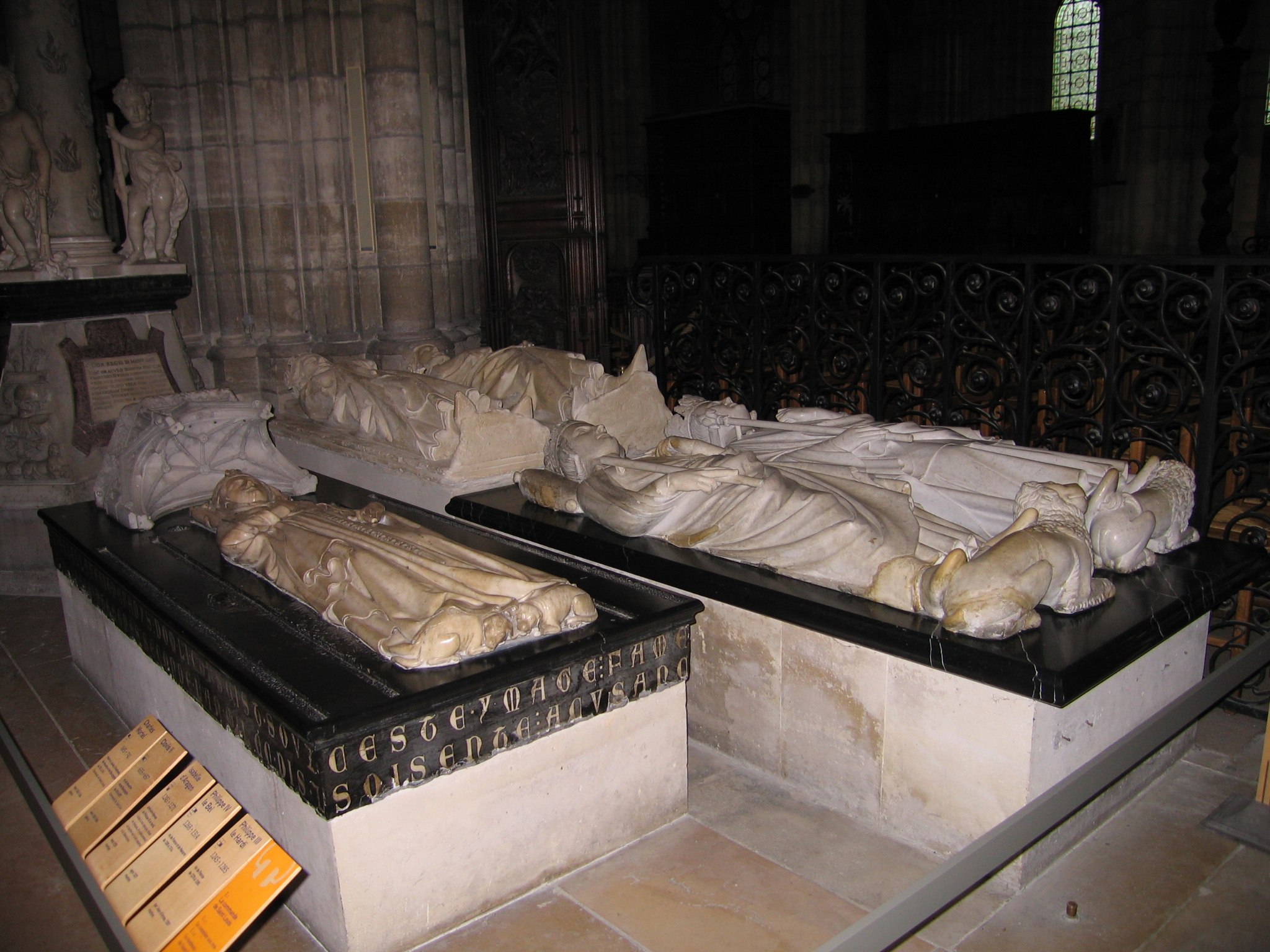 Necropole in Cathedral of Saint-Denis